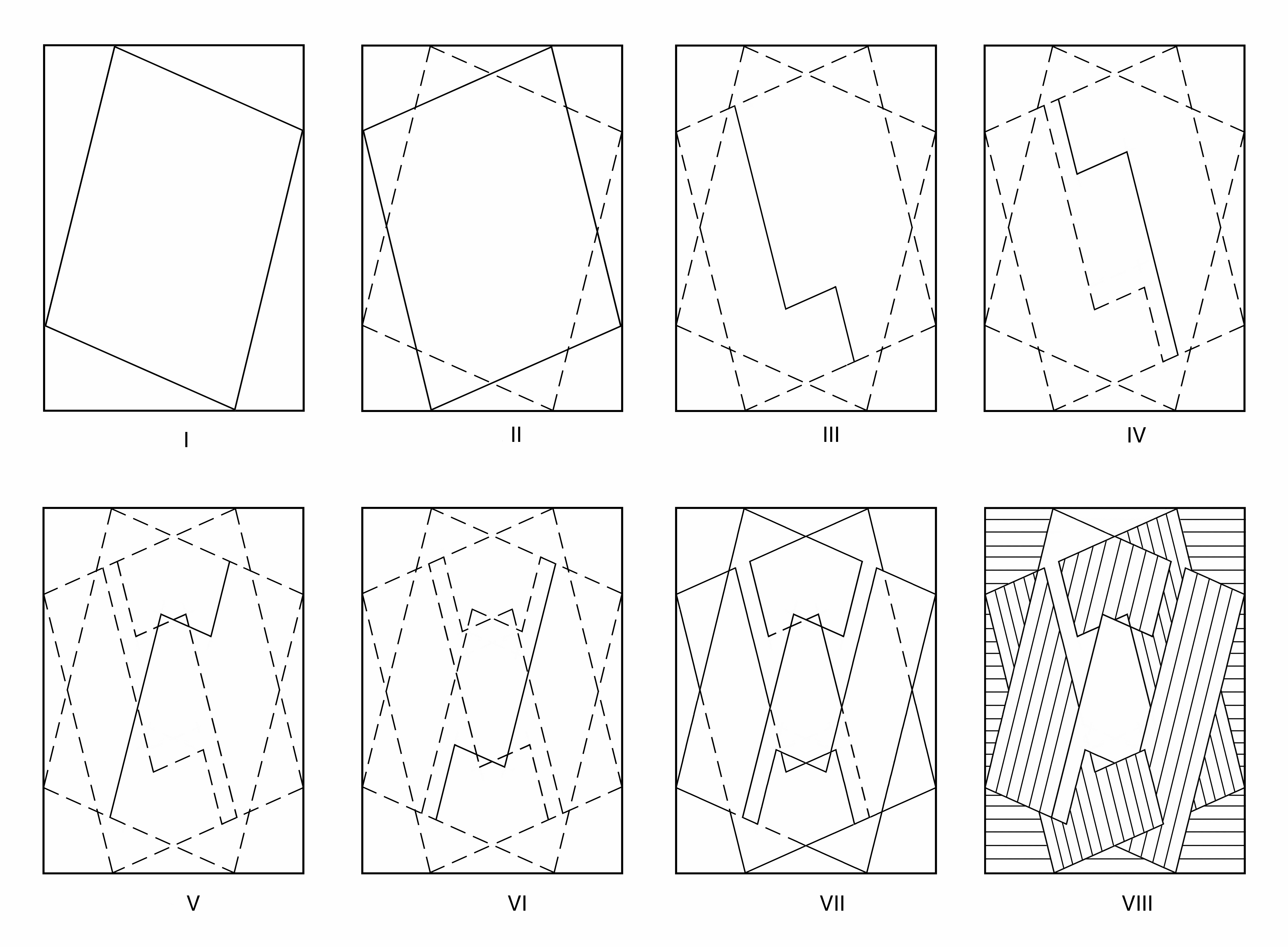 Albert Gleizes (after) 3. Simultaneous movements of rotation and translation of the plane resulting in the creation of a spatial and rhythmic plastic organism